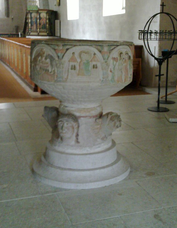 Church of Alskog, Gotland, SE